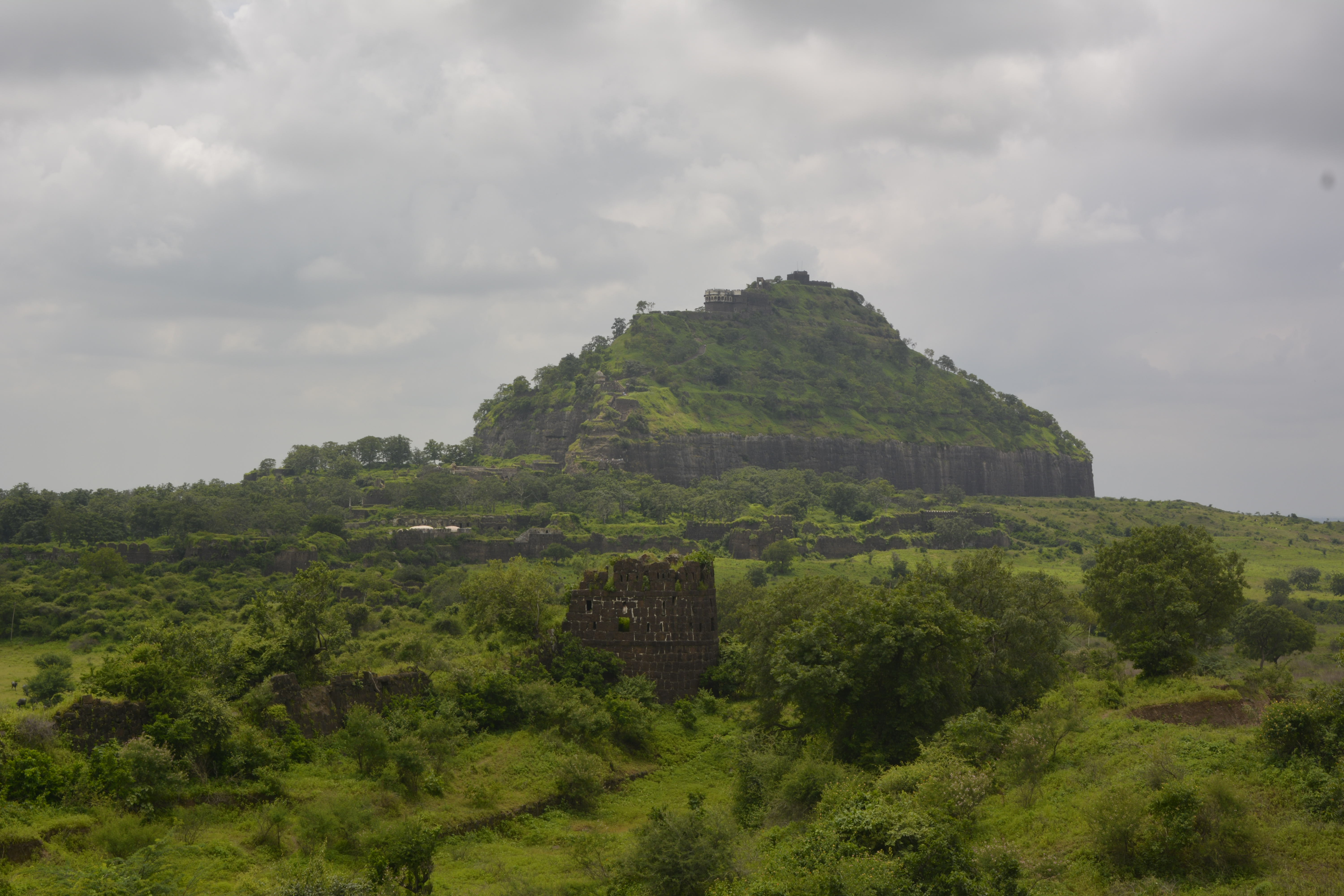 Daulatabad Fort & Monument therein (i.e. Chand Minar) Due to the carved edges of the Hill it added an advantage to the host to defend the fort only from one side, and the other side surrounded by steep cut rocks and water channel neck lacing the fort with deadly alligators.